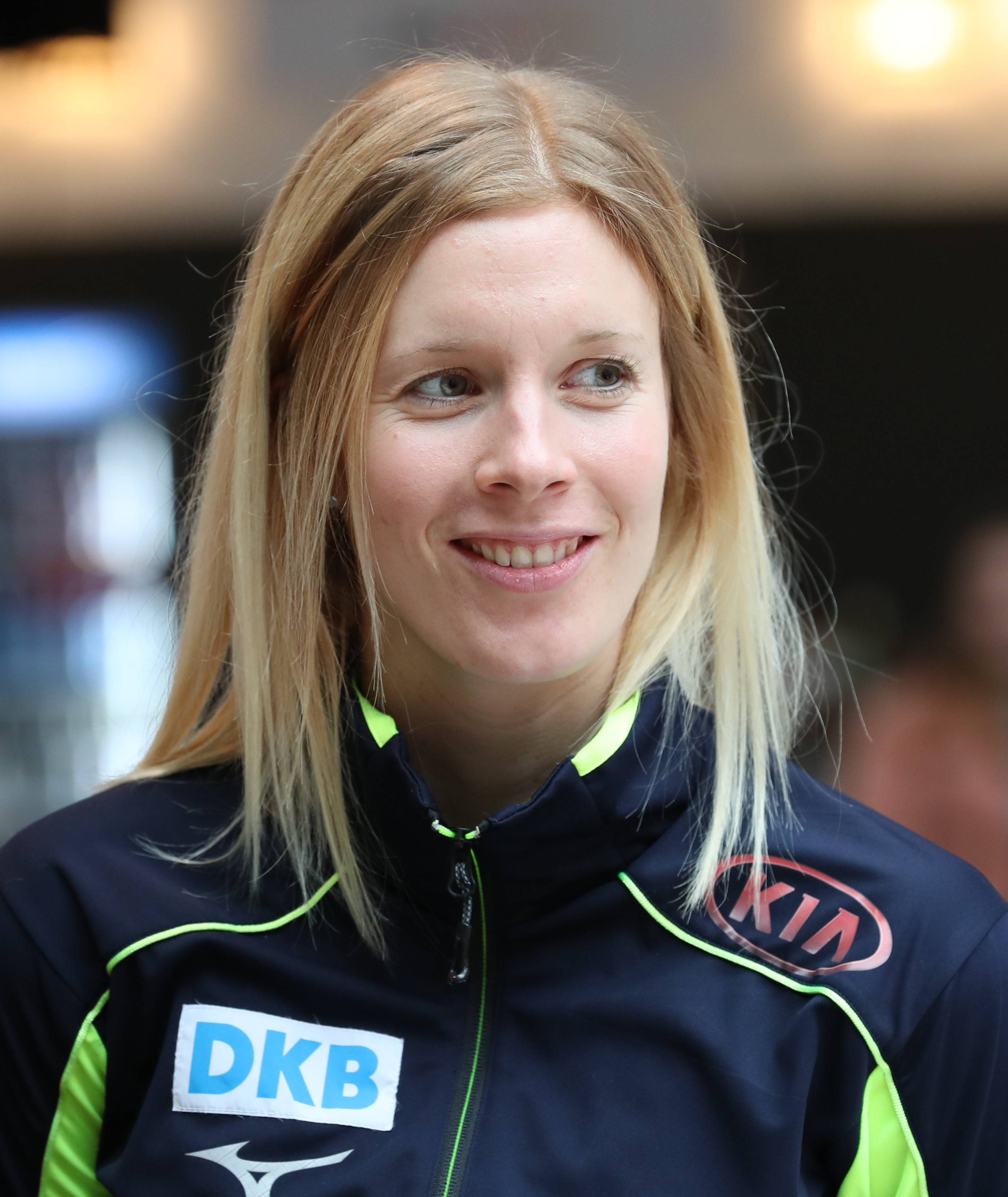 Investiture of the German team for Winter Olympics 2018 in Pyeonchang: Roxanne Dufter